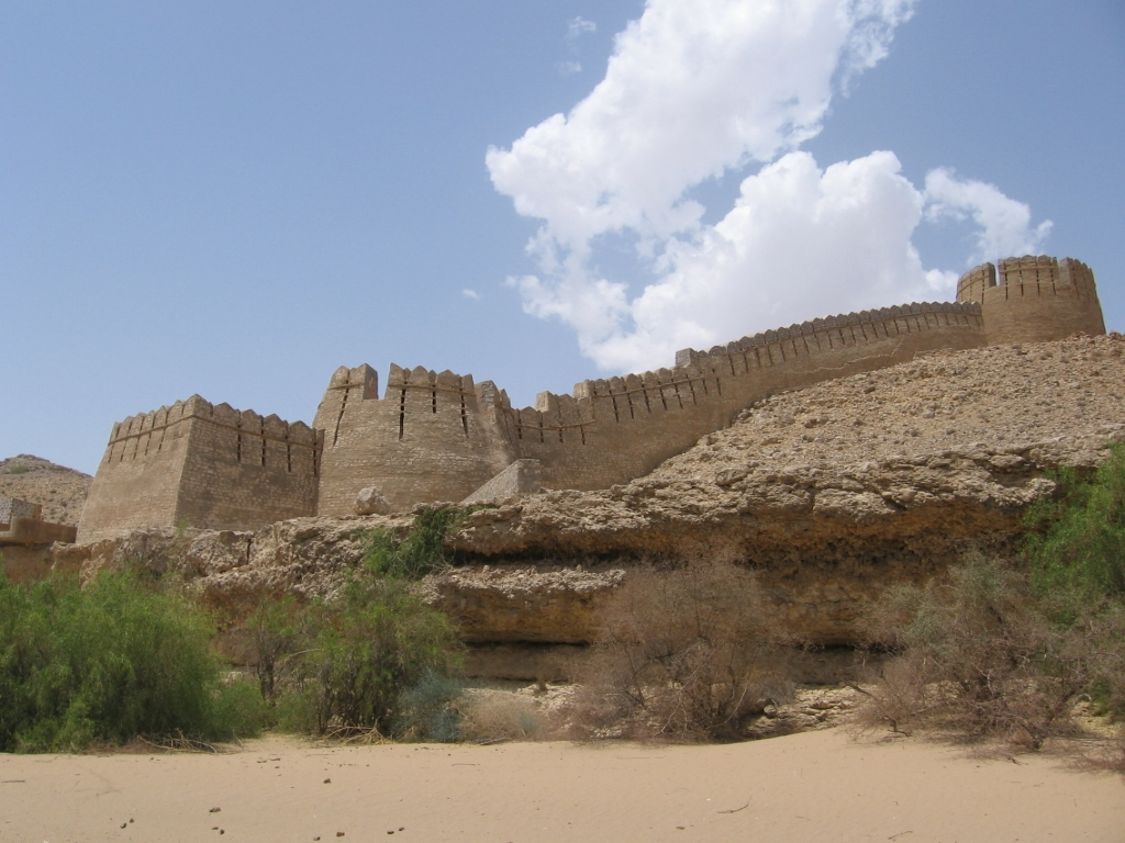 "Picture of Ranikot Fort in Sindh, Pakistan."